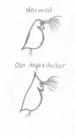 Cambio fenotípico inducido por la presencia de depredadores